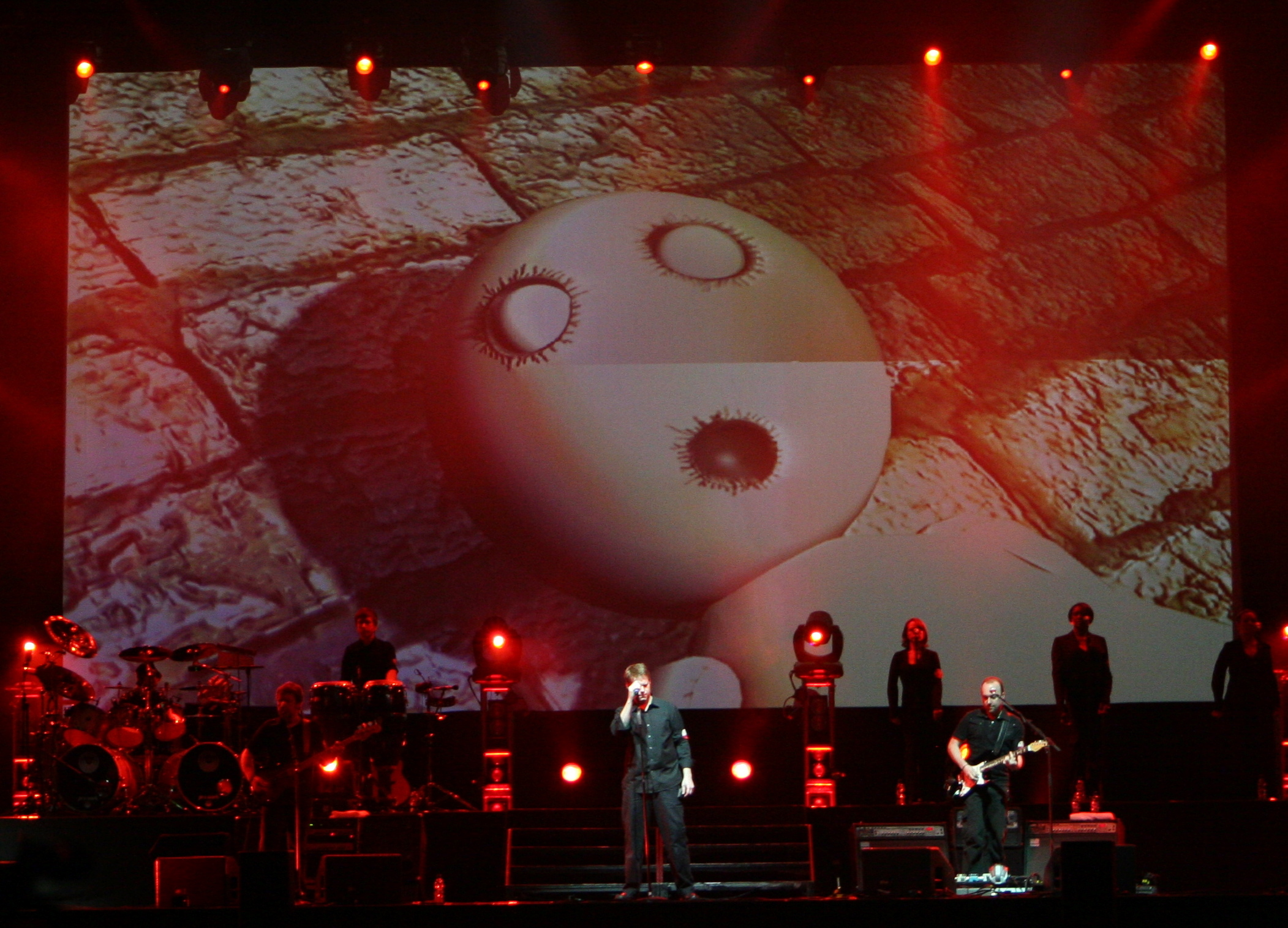 The Australian Pink Floyd Show en Barcelona